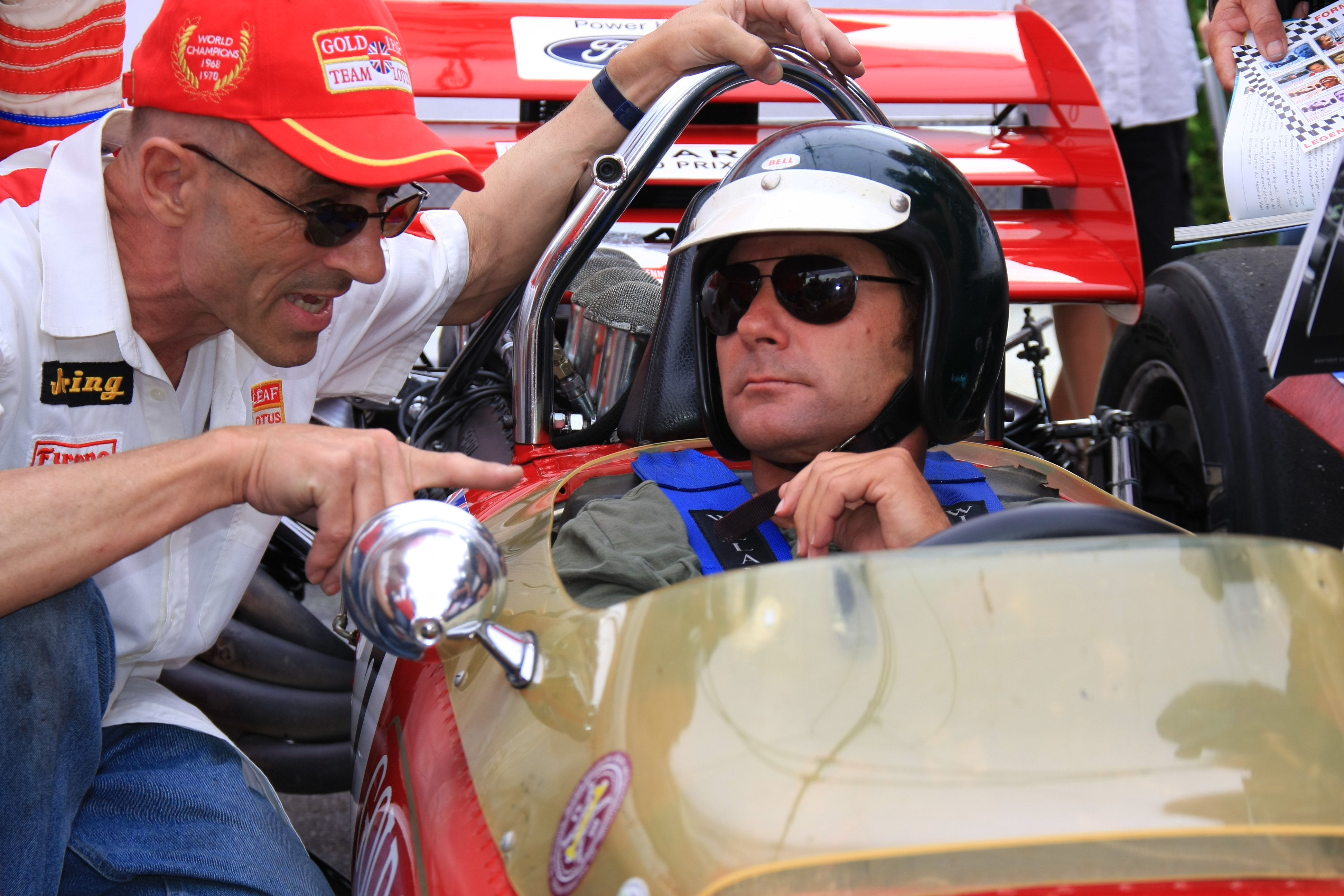 joe willenpart with his lotus with gerhard berger